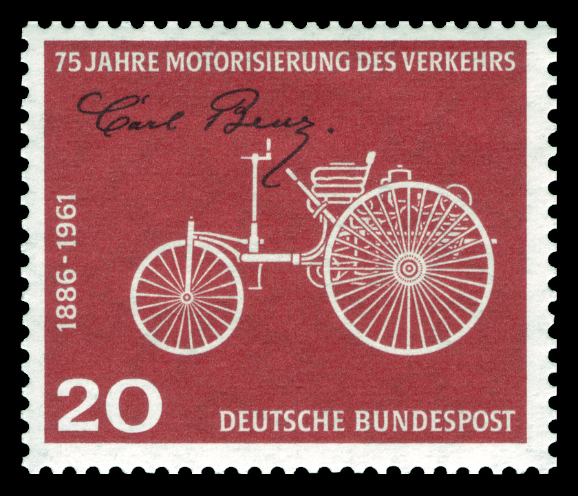 75 years of motorvehicles Graphics by Siegmund Ausgabepreis: 20 Pfennig First Day of Issue / Erstausgabetag: 03. Juli 1961 Michel-Katalog-Nr.: 364